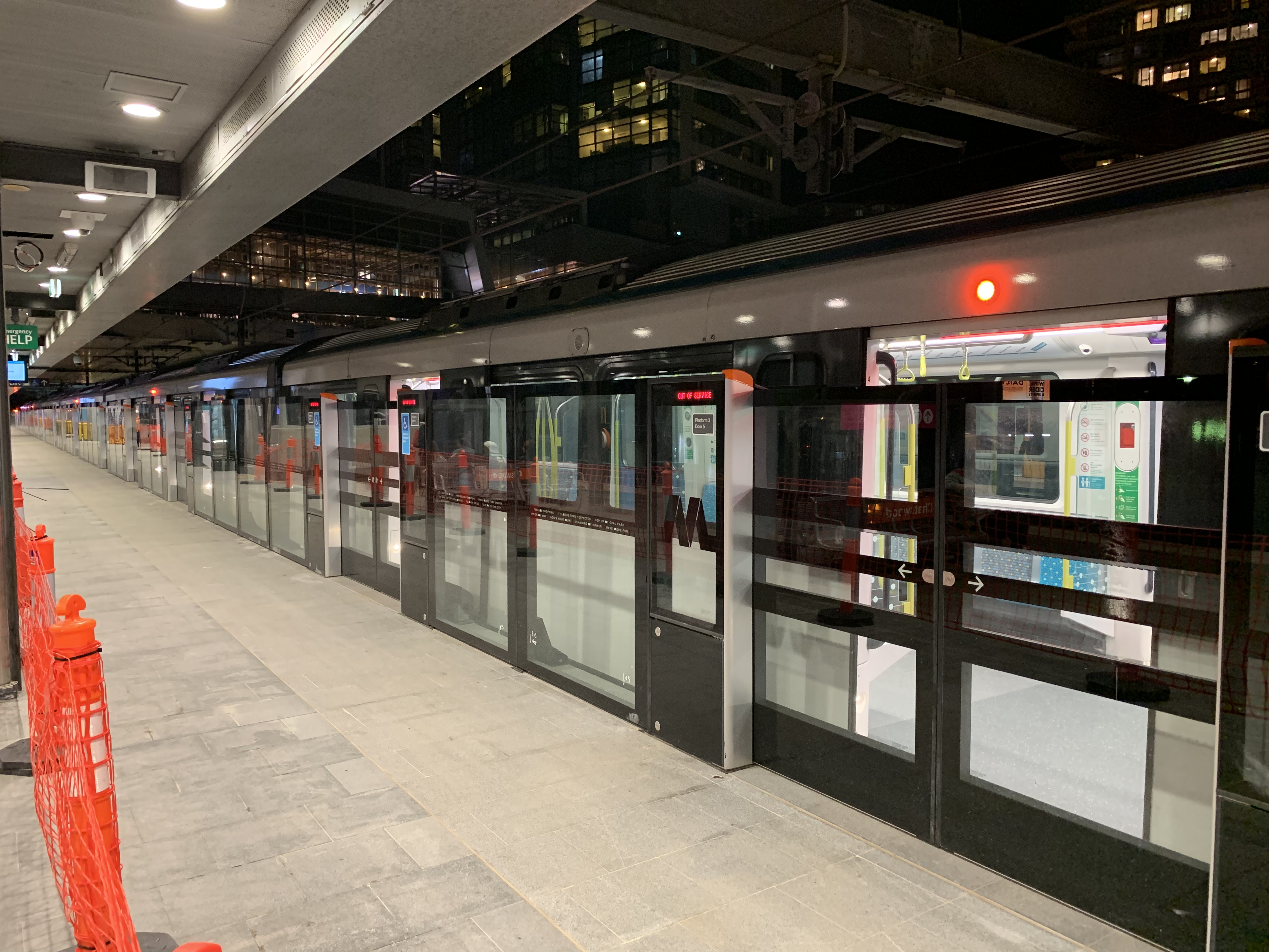 Testing of the new carriages in Chatswood station